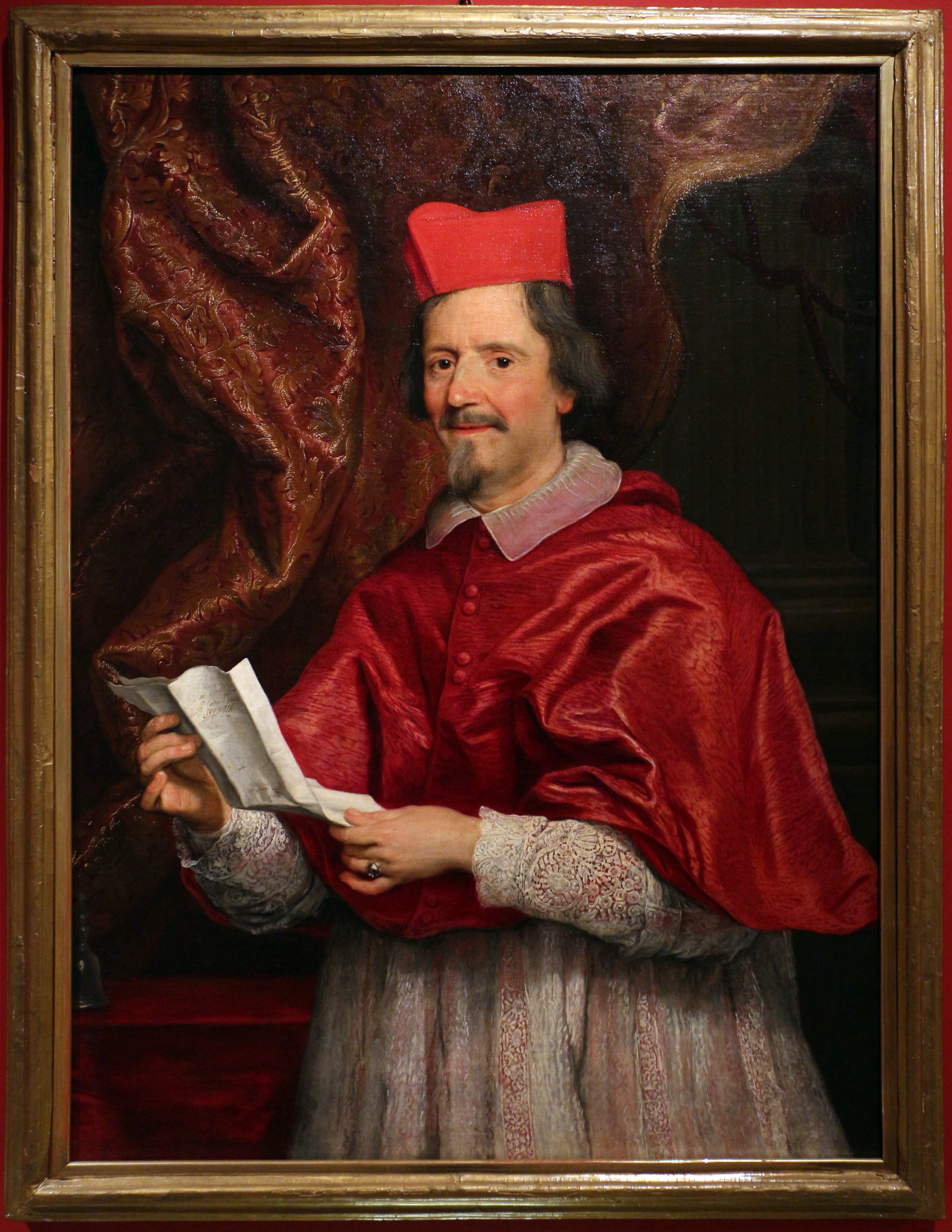 Fondazione Cavallini Sgarbi, on exhibition in Osimo (2016)